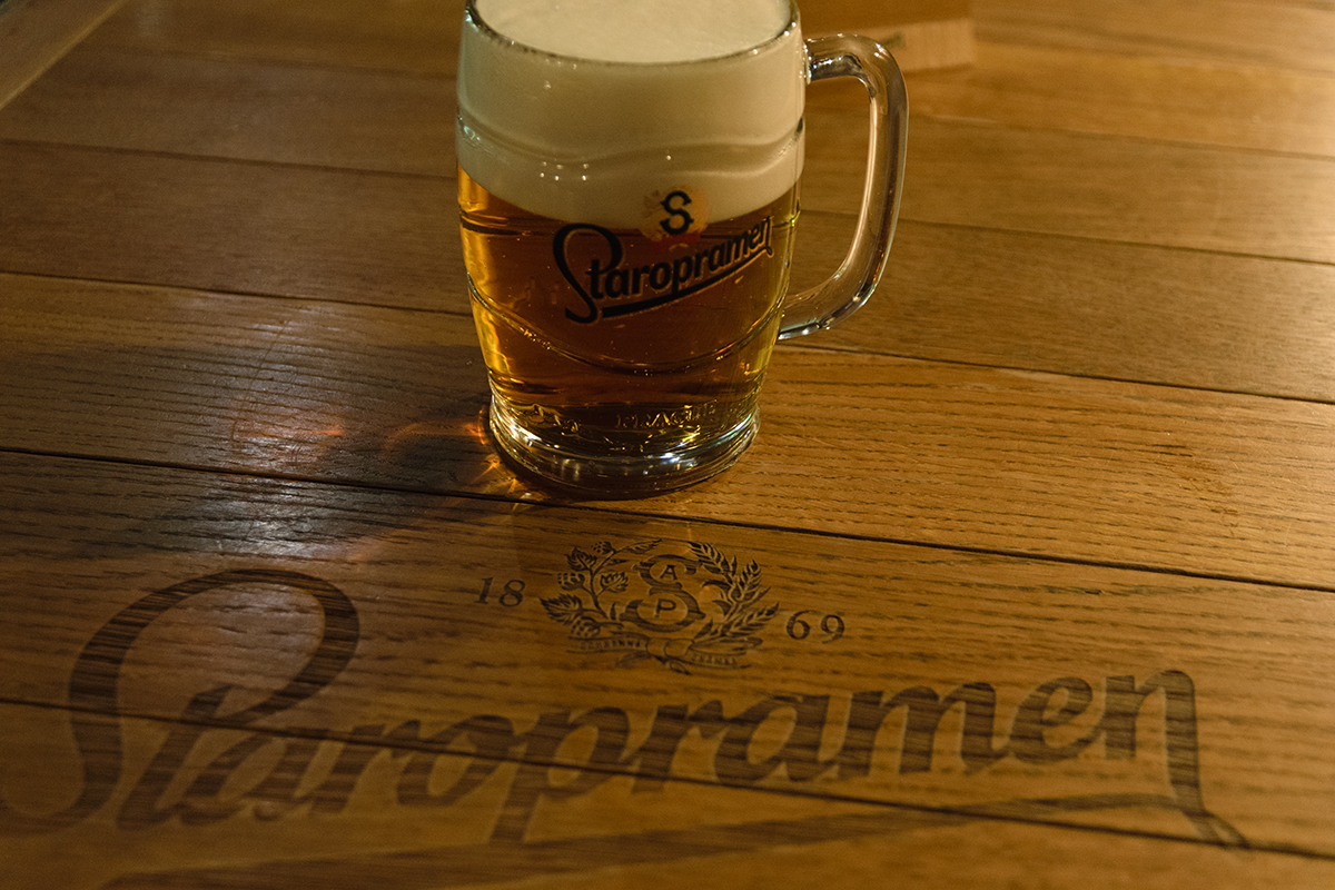 Staropramen beer at Staropramen brewery pub